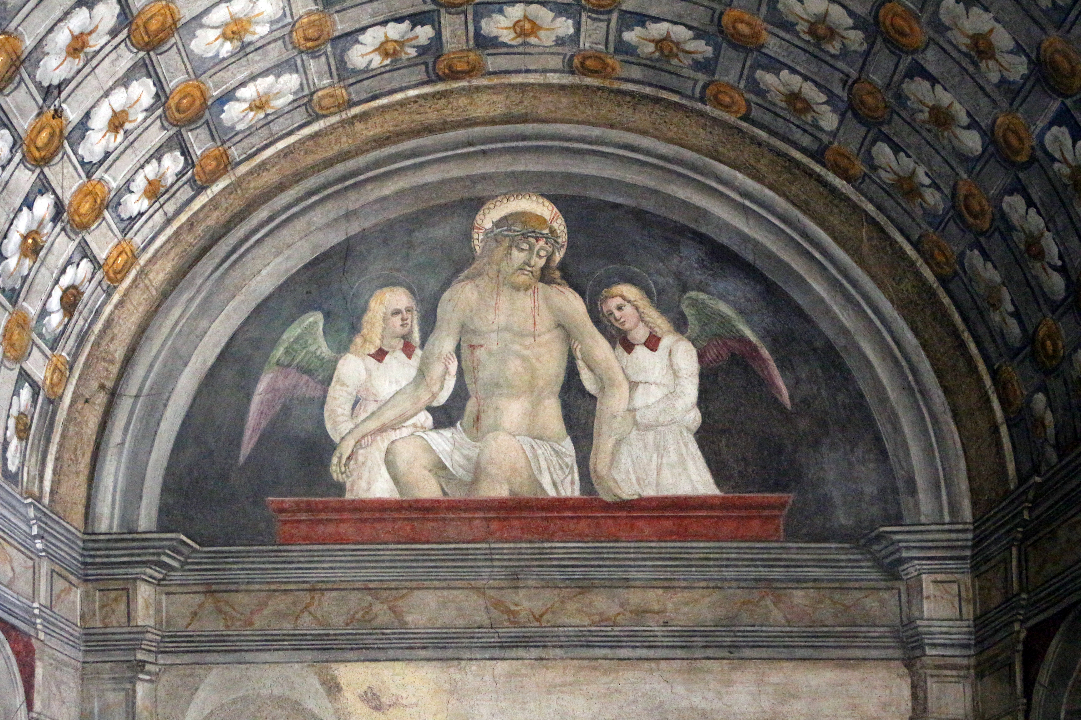 Abbazia di Pontida